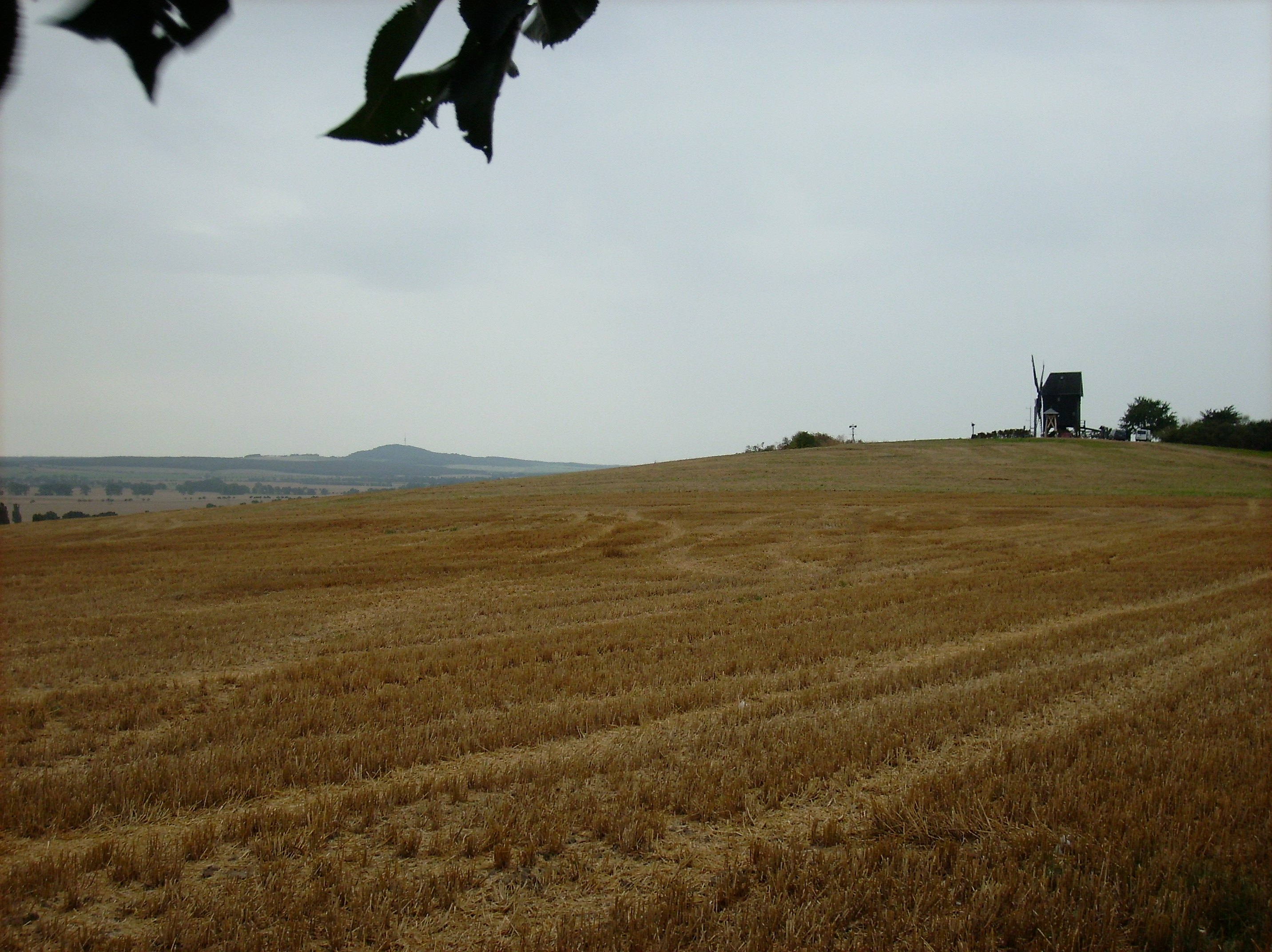 Liebschützberg, a hill in the municipality of the same name (Nordsachsen district, Saxony) with Collm Hill in the background